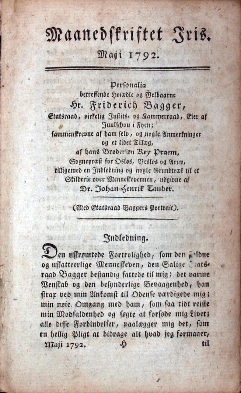 Title page of an issue of the periodical "Iris" from 1792 edited by Johan Clemens Tode.